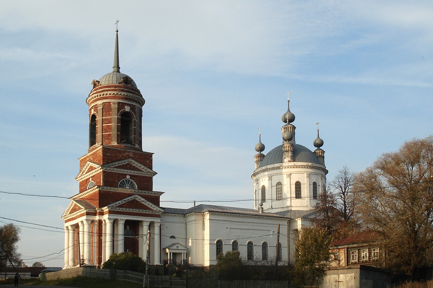 Nikolskaya Church inthe village of Kazakovo. Nizhegorodskaya oblast. Russia.